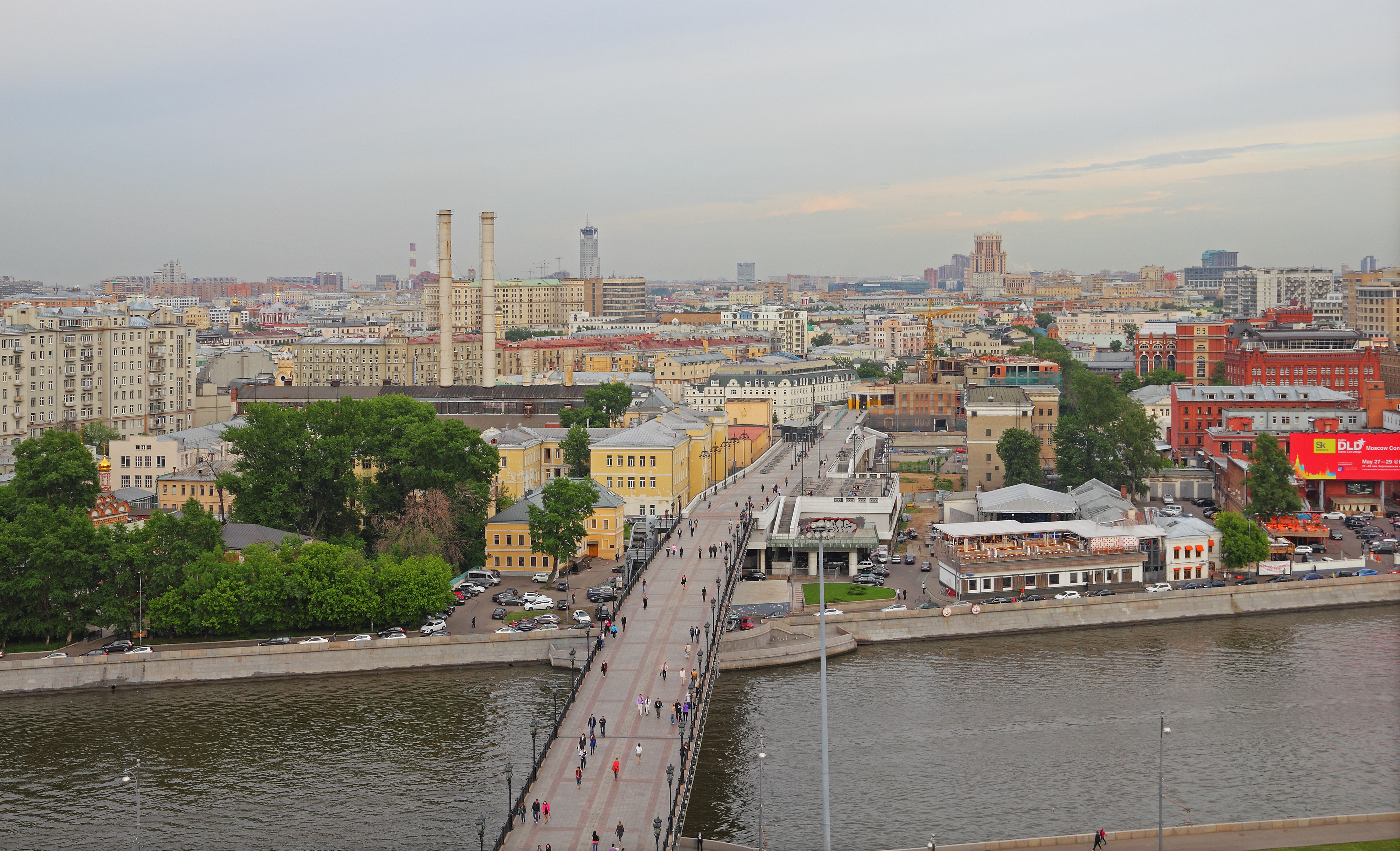 View from one of the four visitor's viewing platforms of the Cathedral of Christ the Saviour in Moscow.